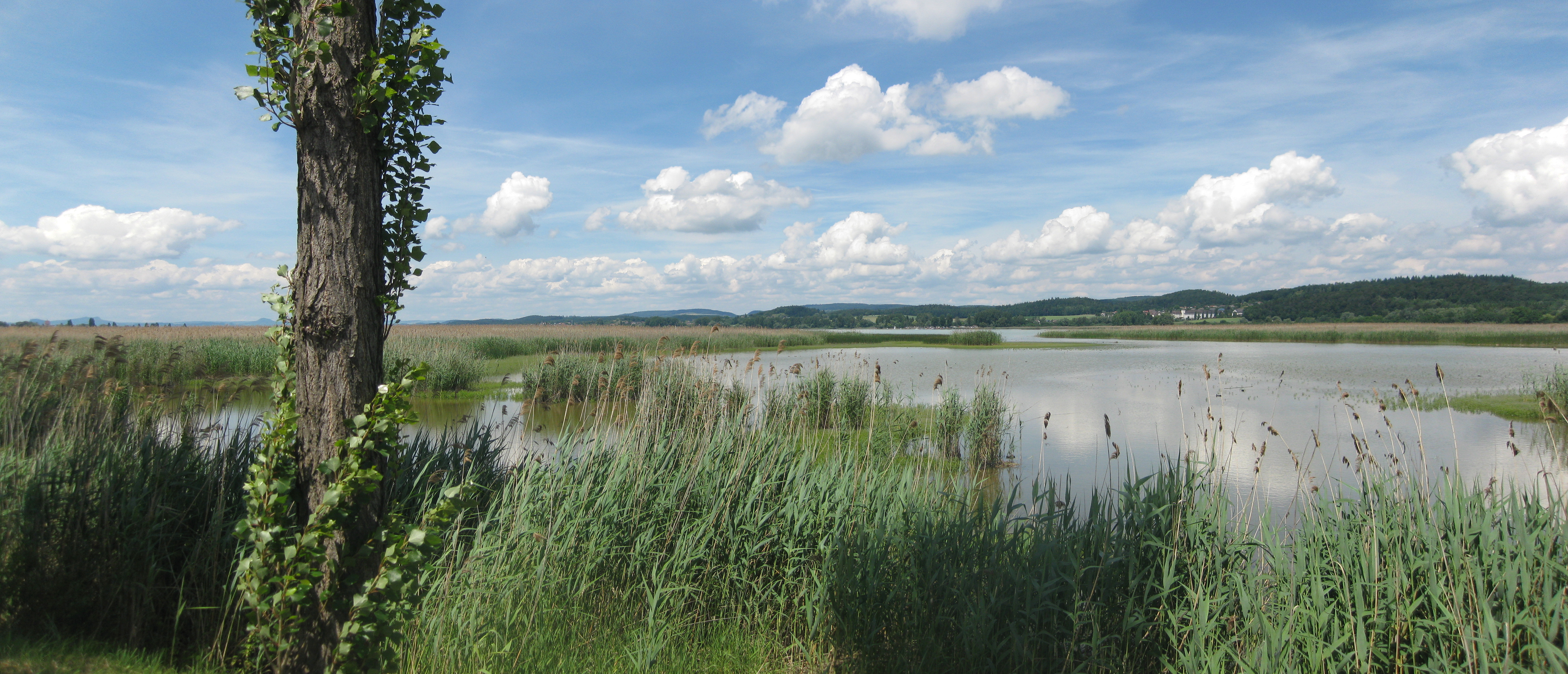 Wollmatinger Ried seen from Reichenau Island (Lake von Constance, Germany)